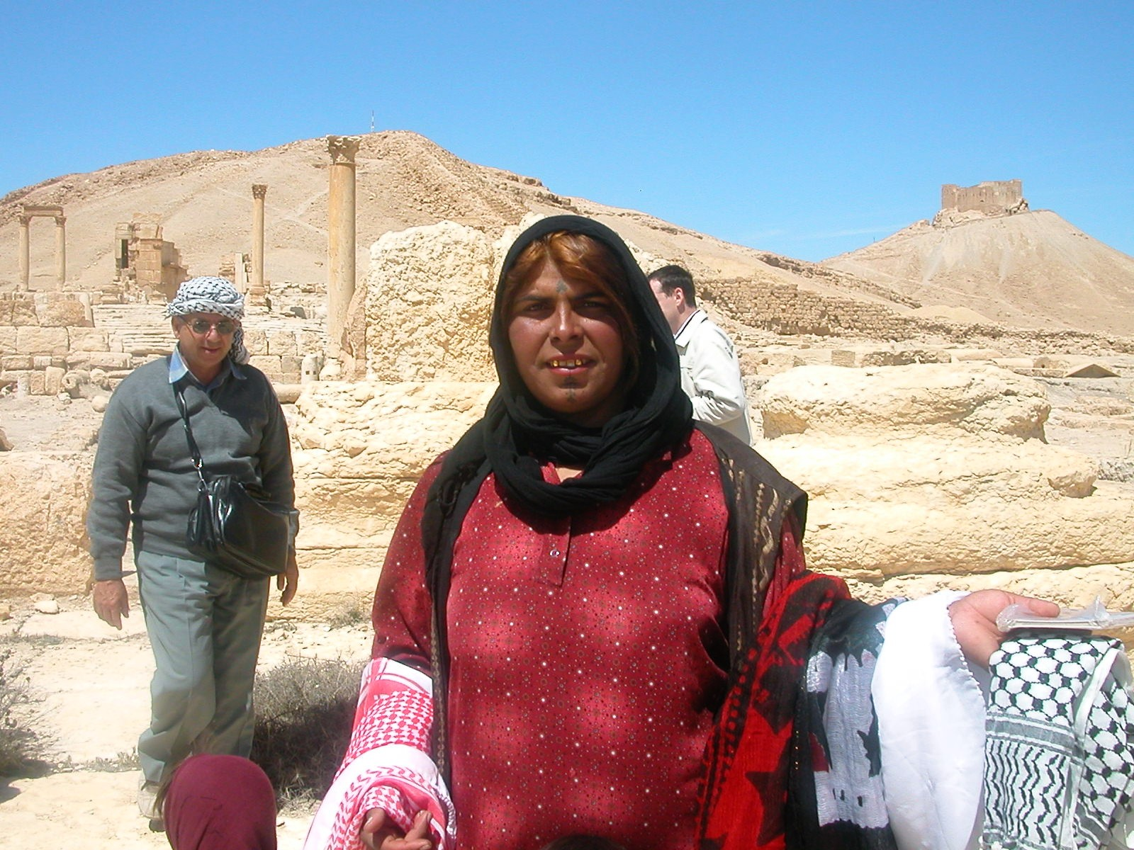 Palmyra 8